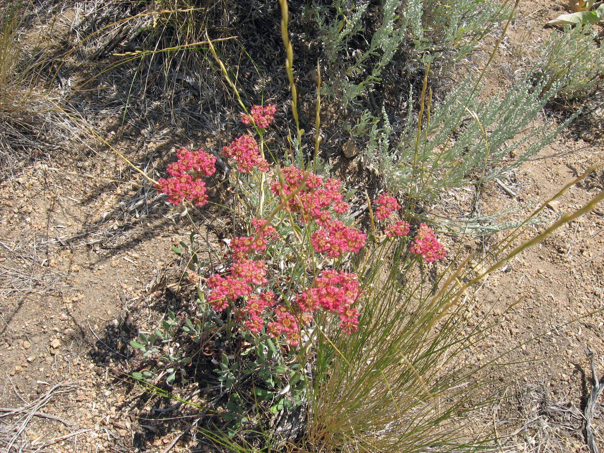 Buckwheat in Sawtooth National Recreation Area, Idaho